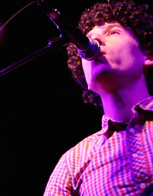 Photo of Emanuel Ayvas performing at Bowery Electric in NYC, 2013.